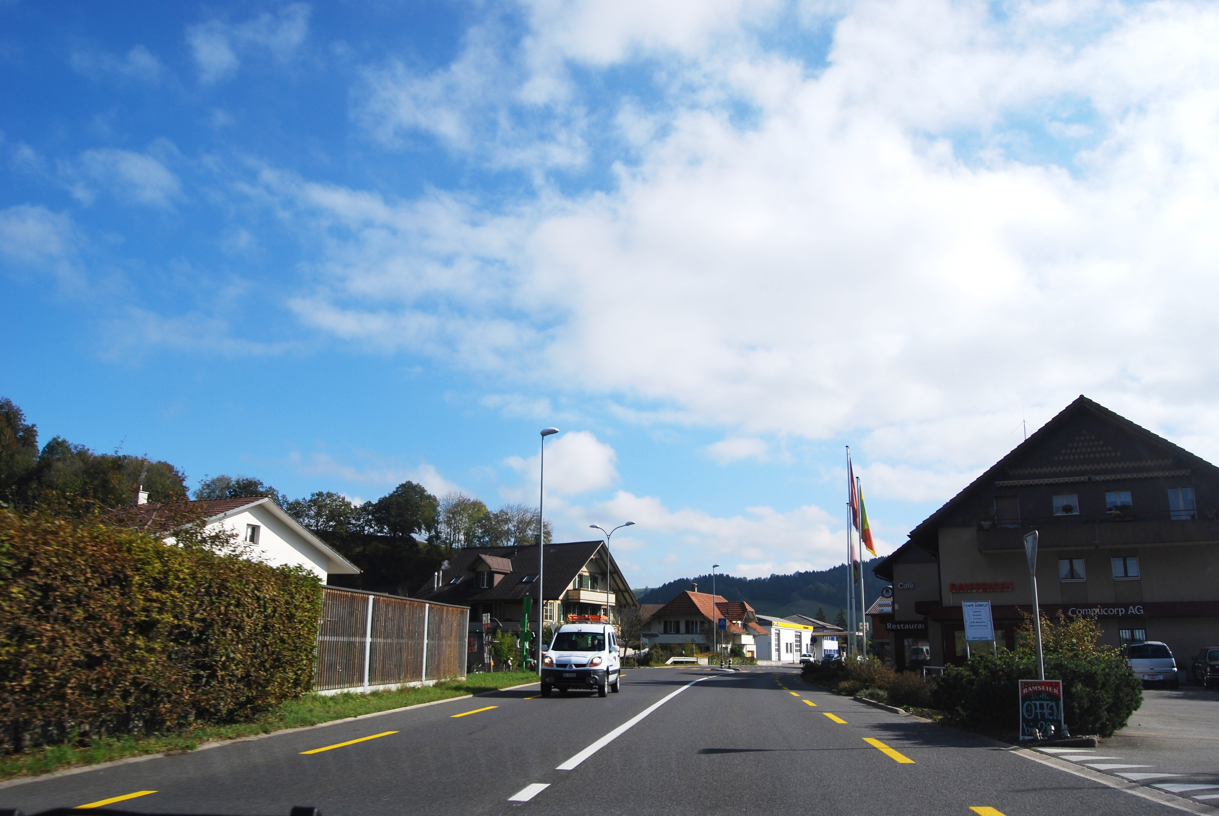 Bowil, canton of Bern, SwitzerlandEsperanto: Bowil, Kantono Berno, Svislando